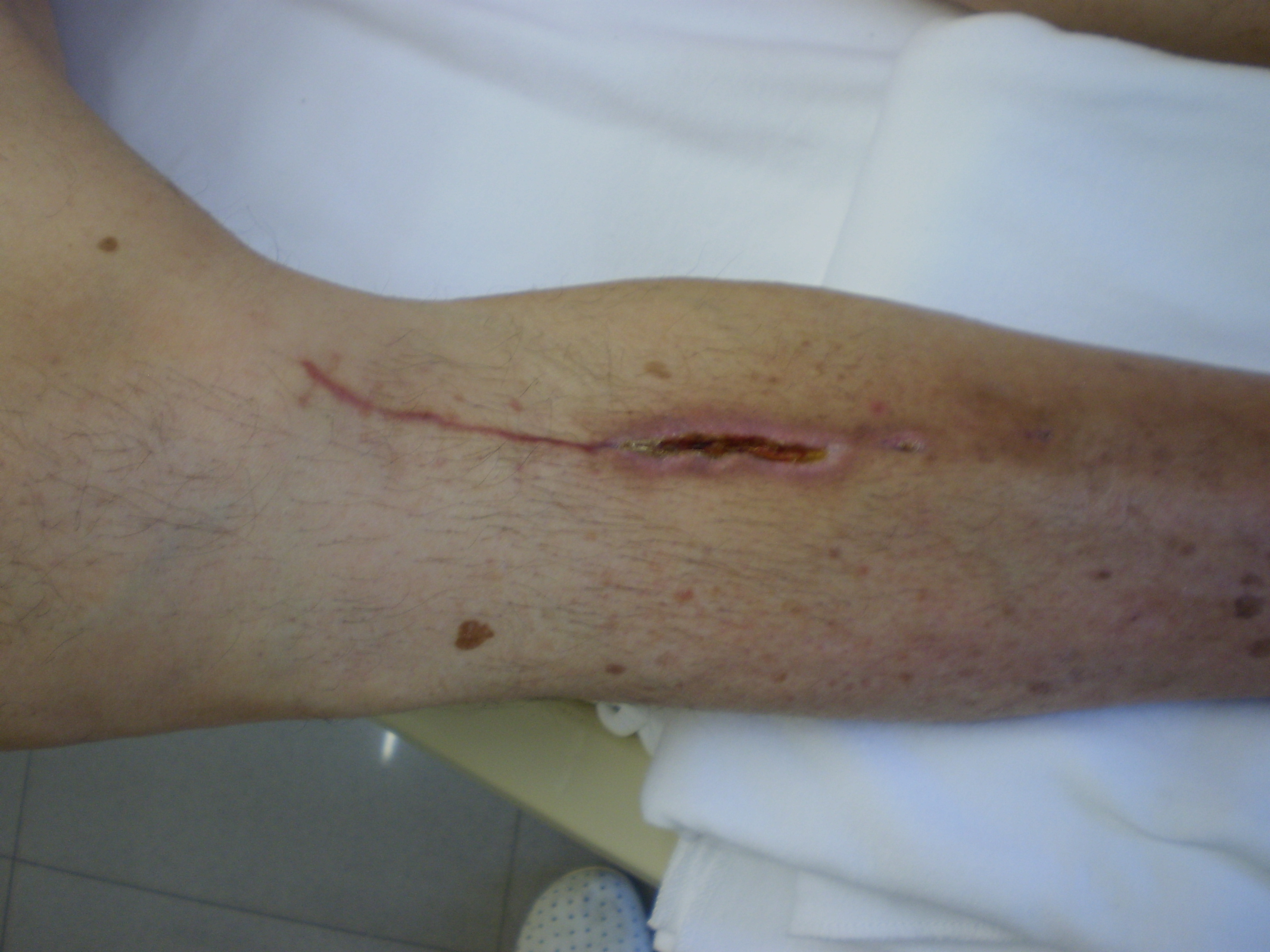 Post operative wound Author Milorad Dimic MD, Nis Serbia